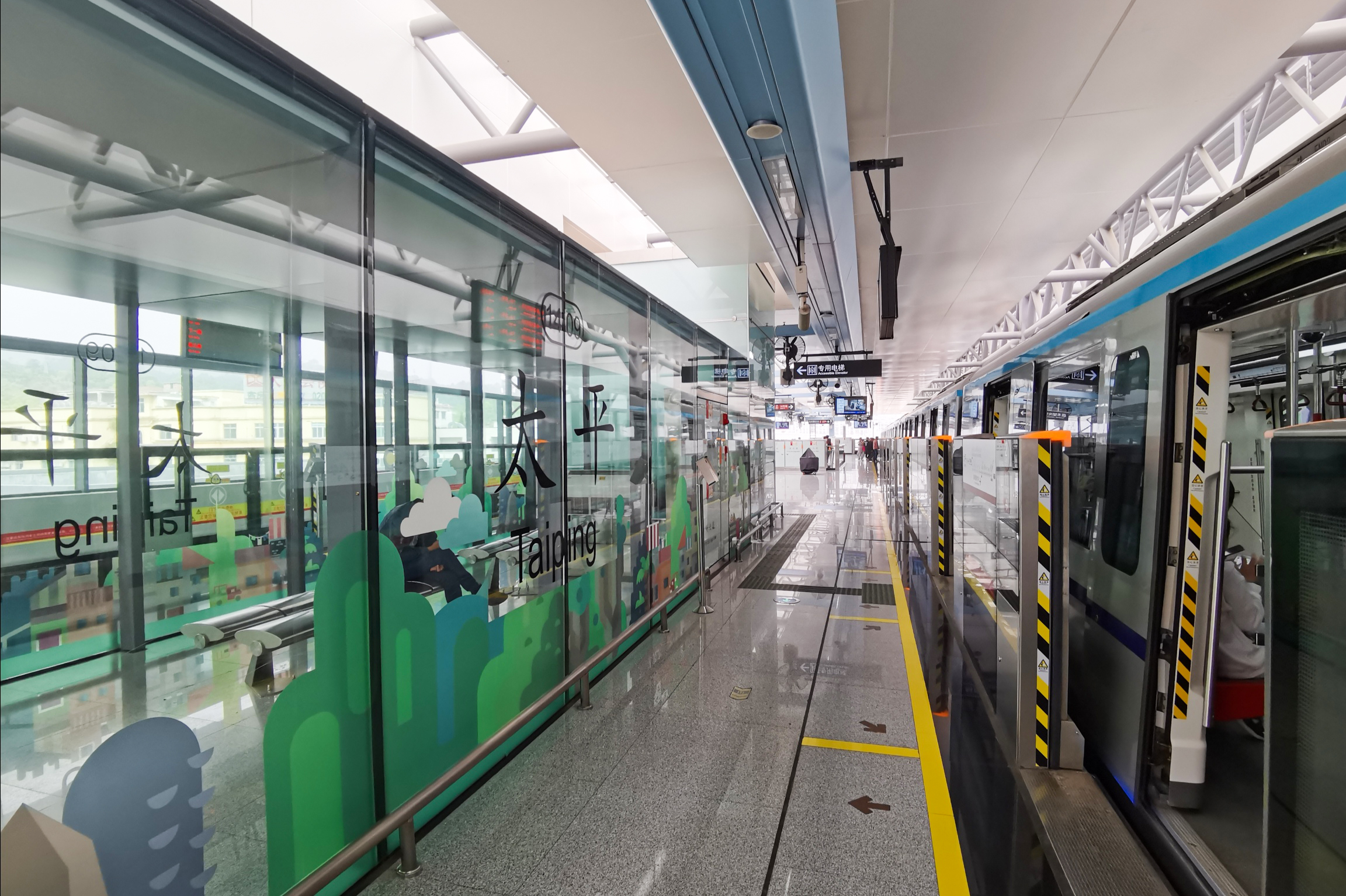 广州地铁太平站